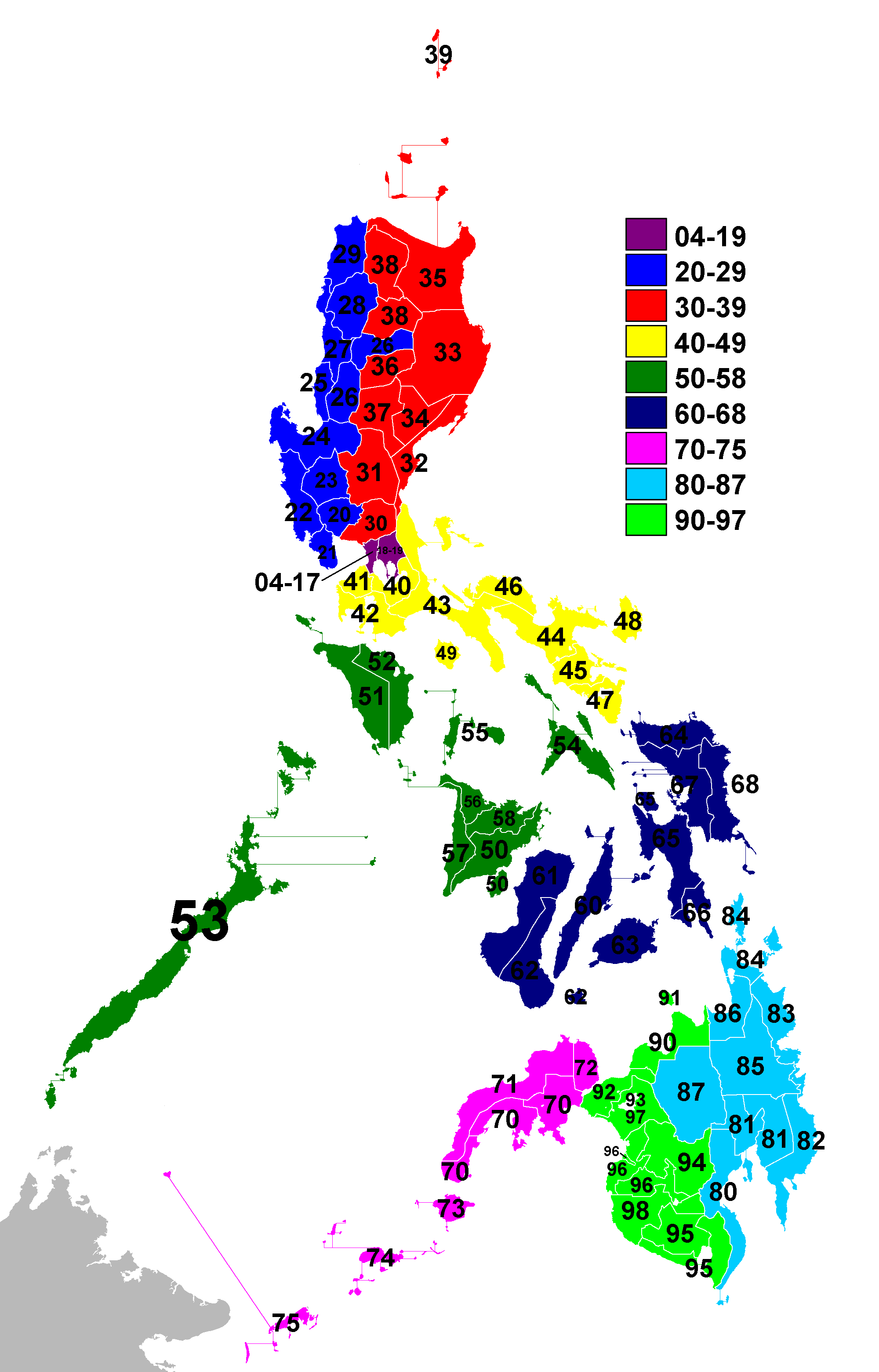 List of ZIP Codes in the Philippines